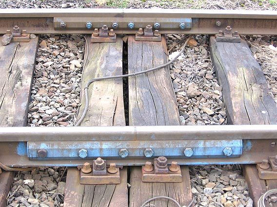 glued insulated rail joint